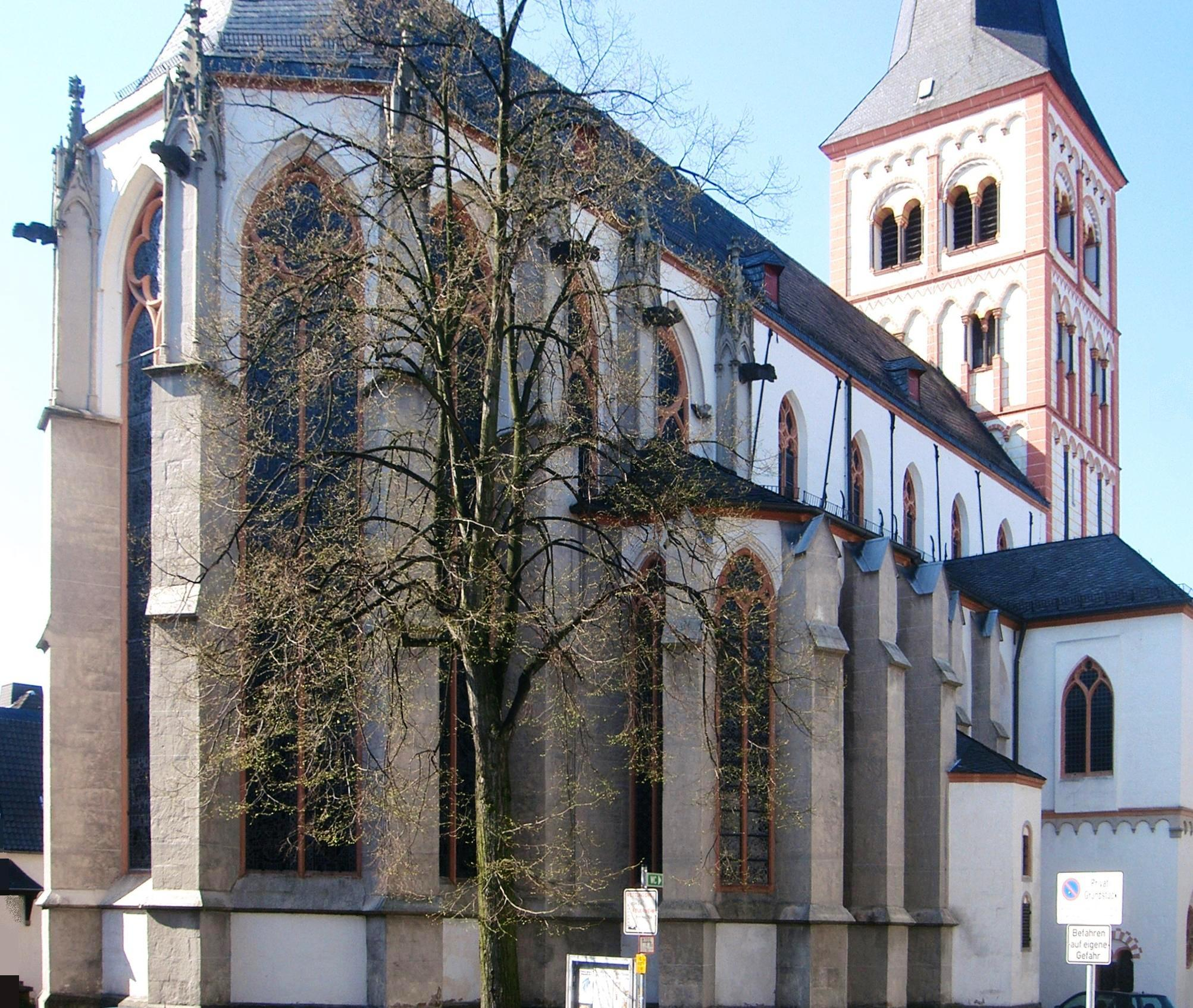 Siegburg, church St. Servatius, from north-east